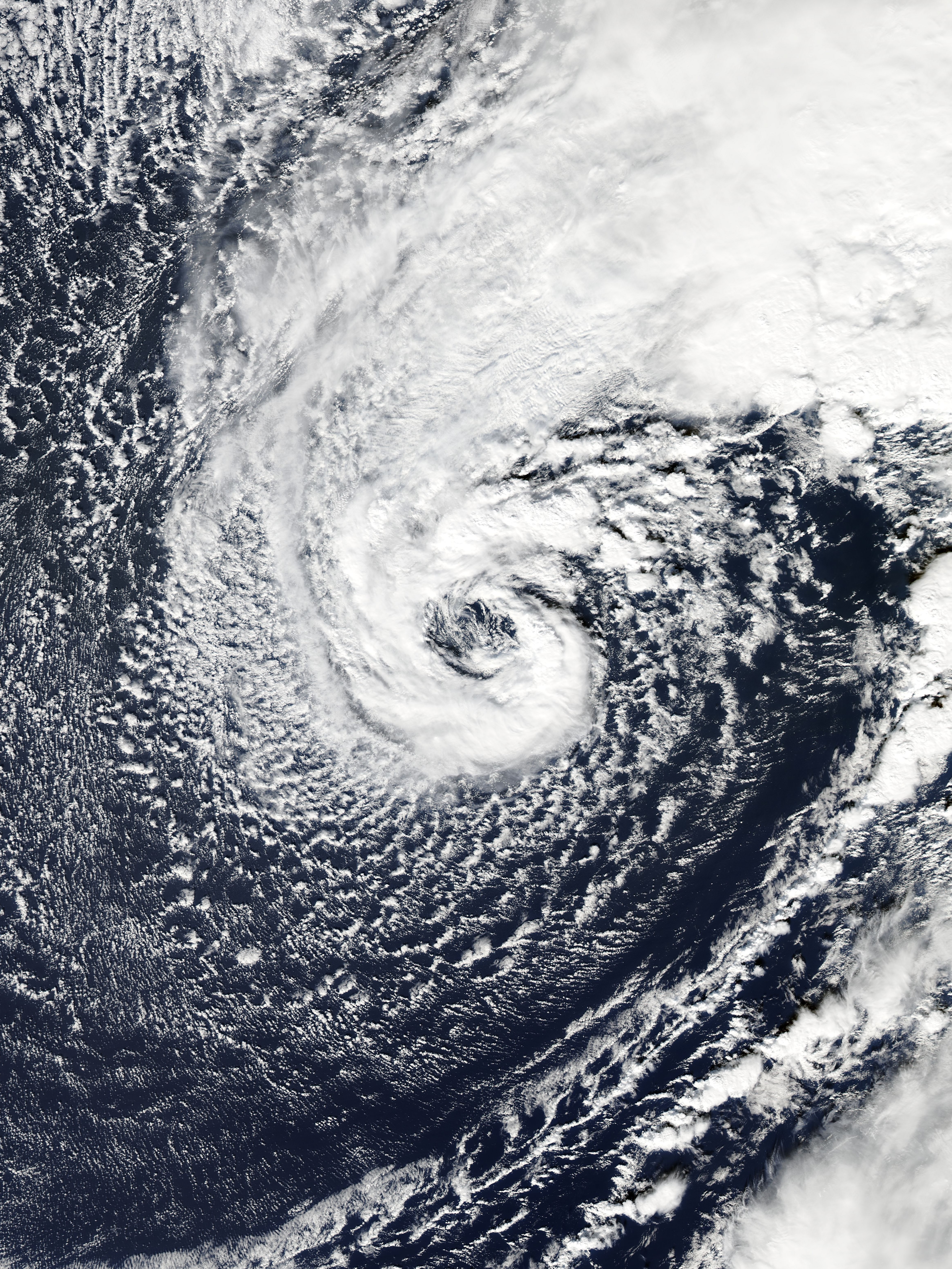 A hurricane-force extratropical cyclone east of Bermuda on January 10, 2016, featuring an eye-like feature that is impressively distinct and round. Later this system weakened slowly, and then it ultimately became Hurricane Alex on January 14.